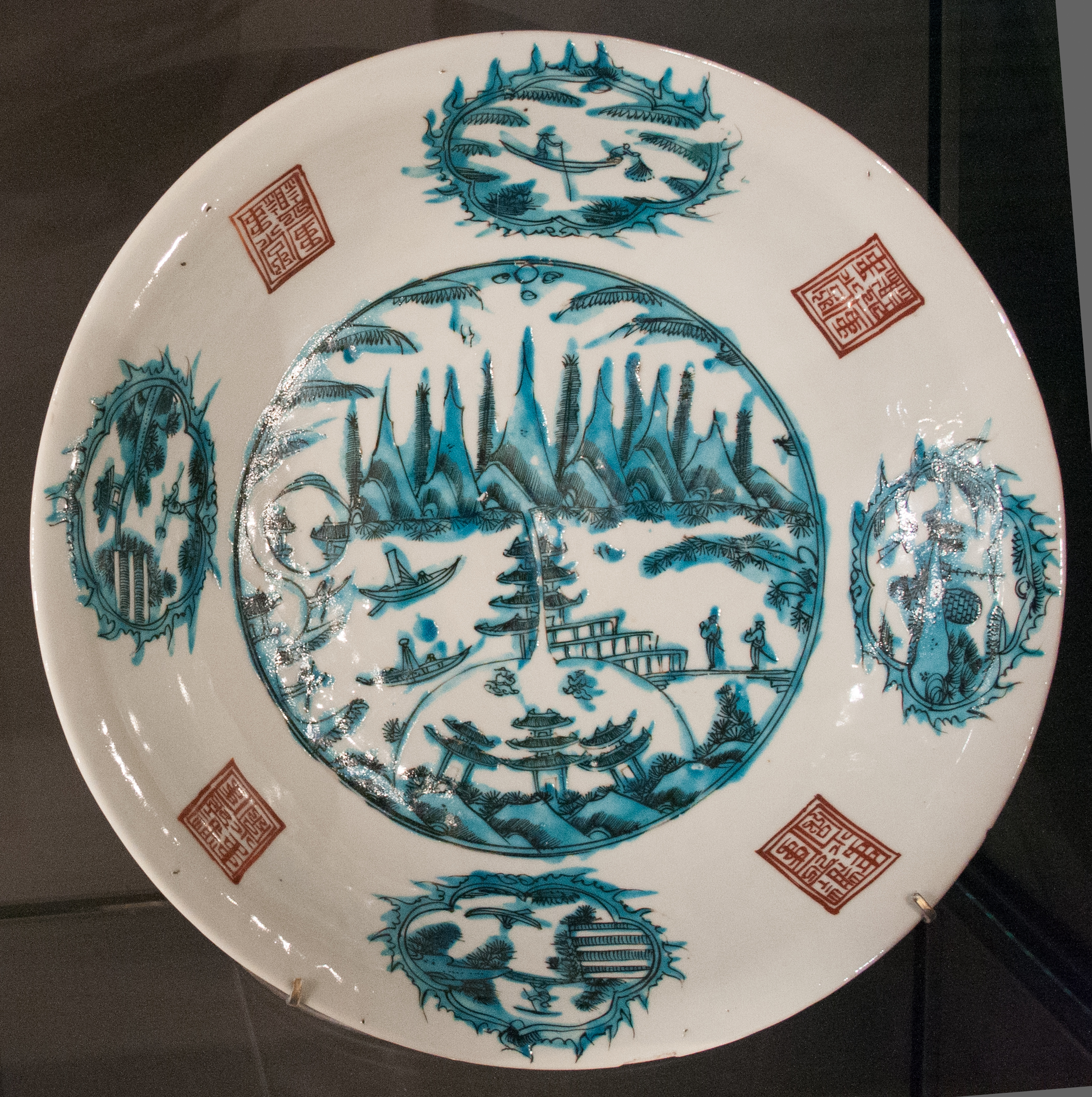 Ming dynasty, 1573-1620. Zhangzhou export warte („Swatow“). Pinghe county, Zhanzhou prefecture, Fujian province.